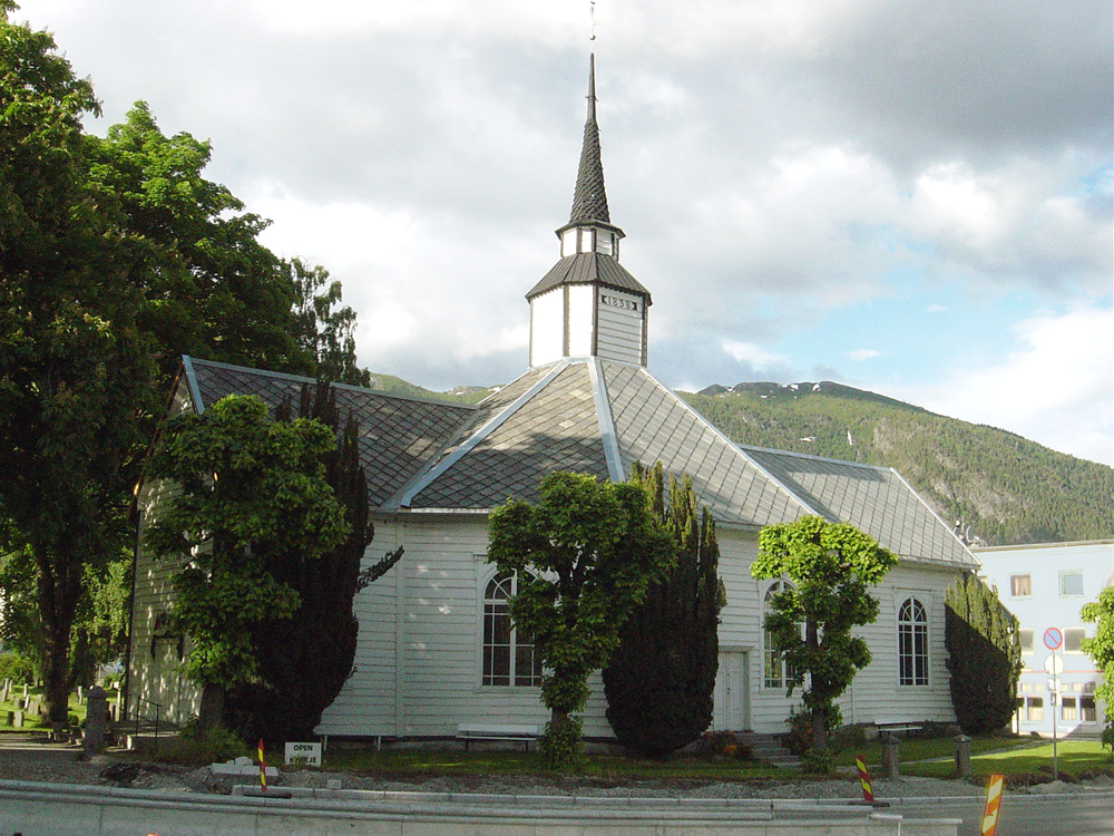 Stranda and the Stranda kirke